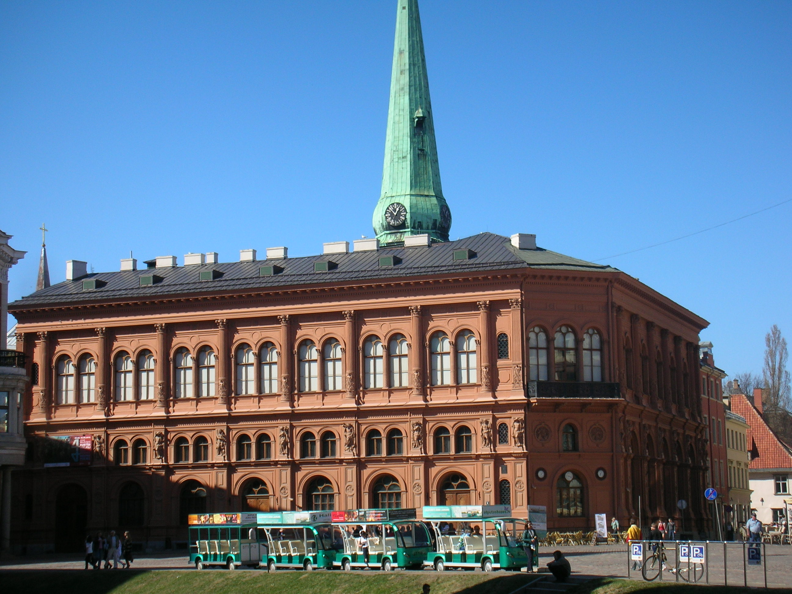 Former stock exchange of Riga